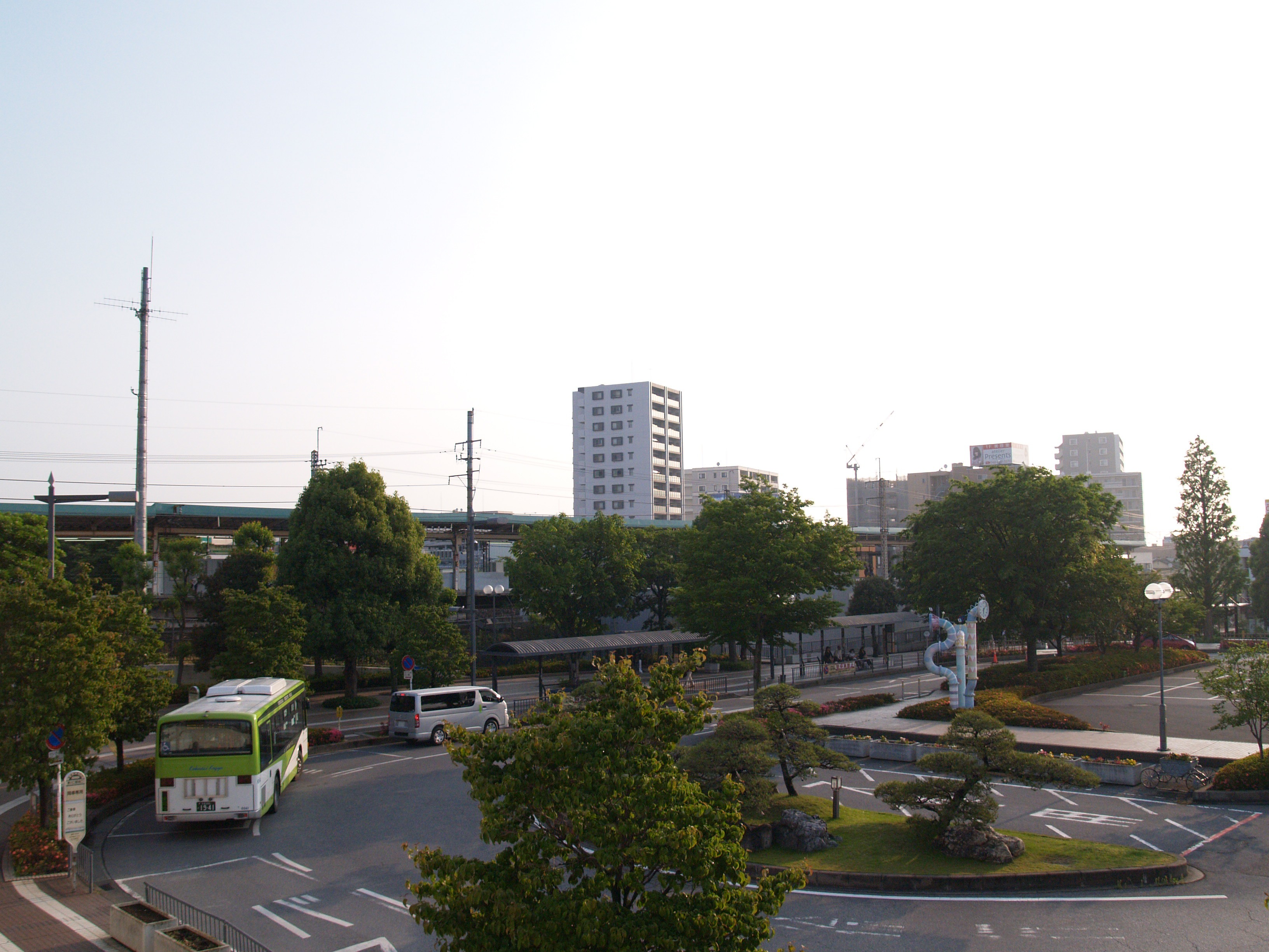 South Entrance of Higashi-Kawaguchi Station